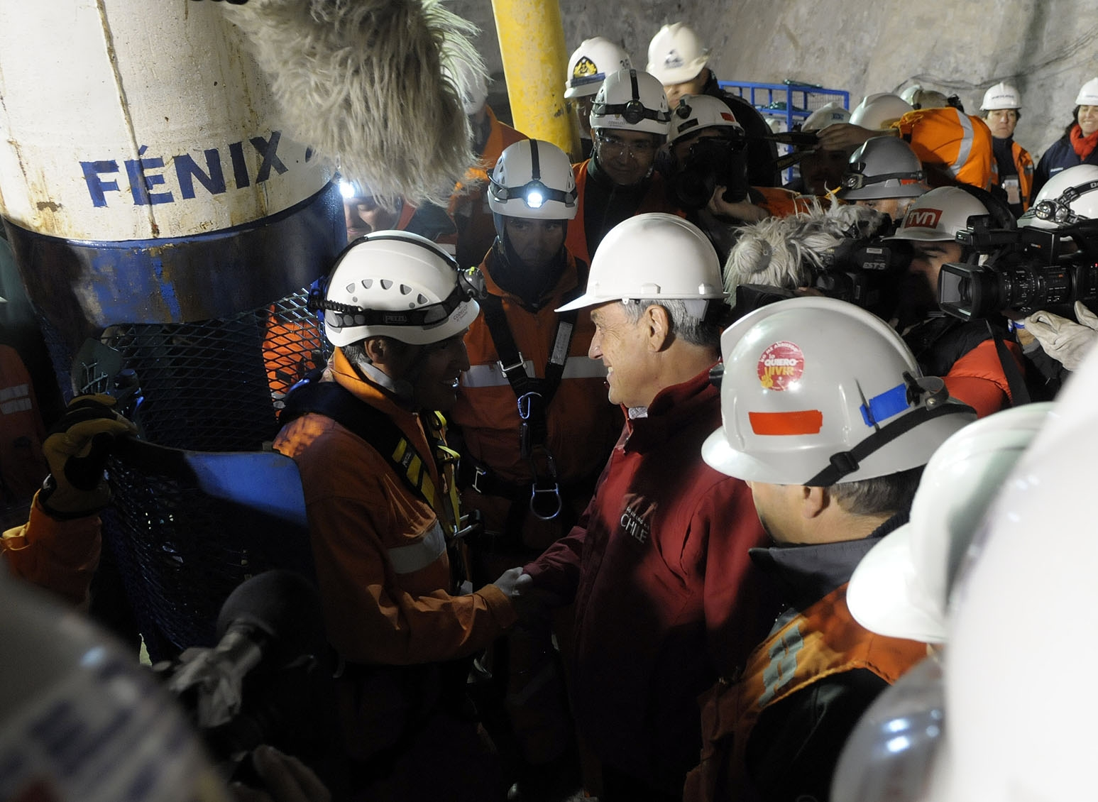 First rescuer, Manuel_González, preparing to enter the capsule for the 2,000 ft descent to the trapped mines at San Jose Mine, Copiapo, Chile.